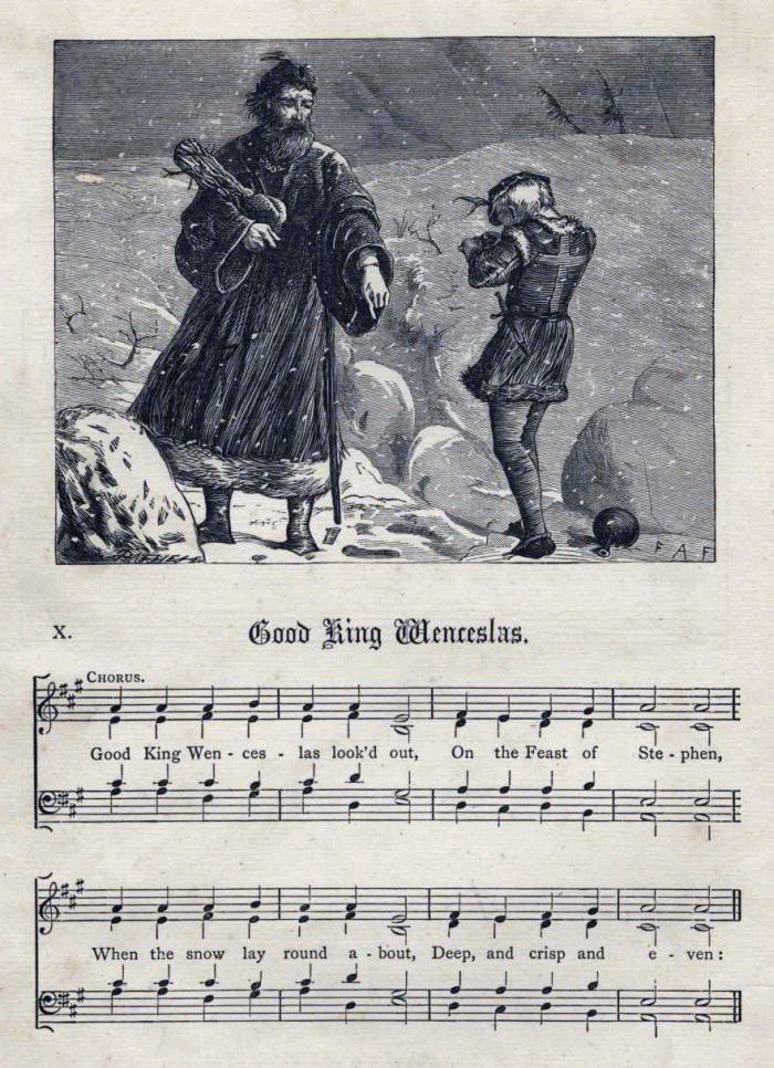 Good_king_wenceslas from an 1879 book by Henry Ramsden Bramley